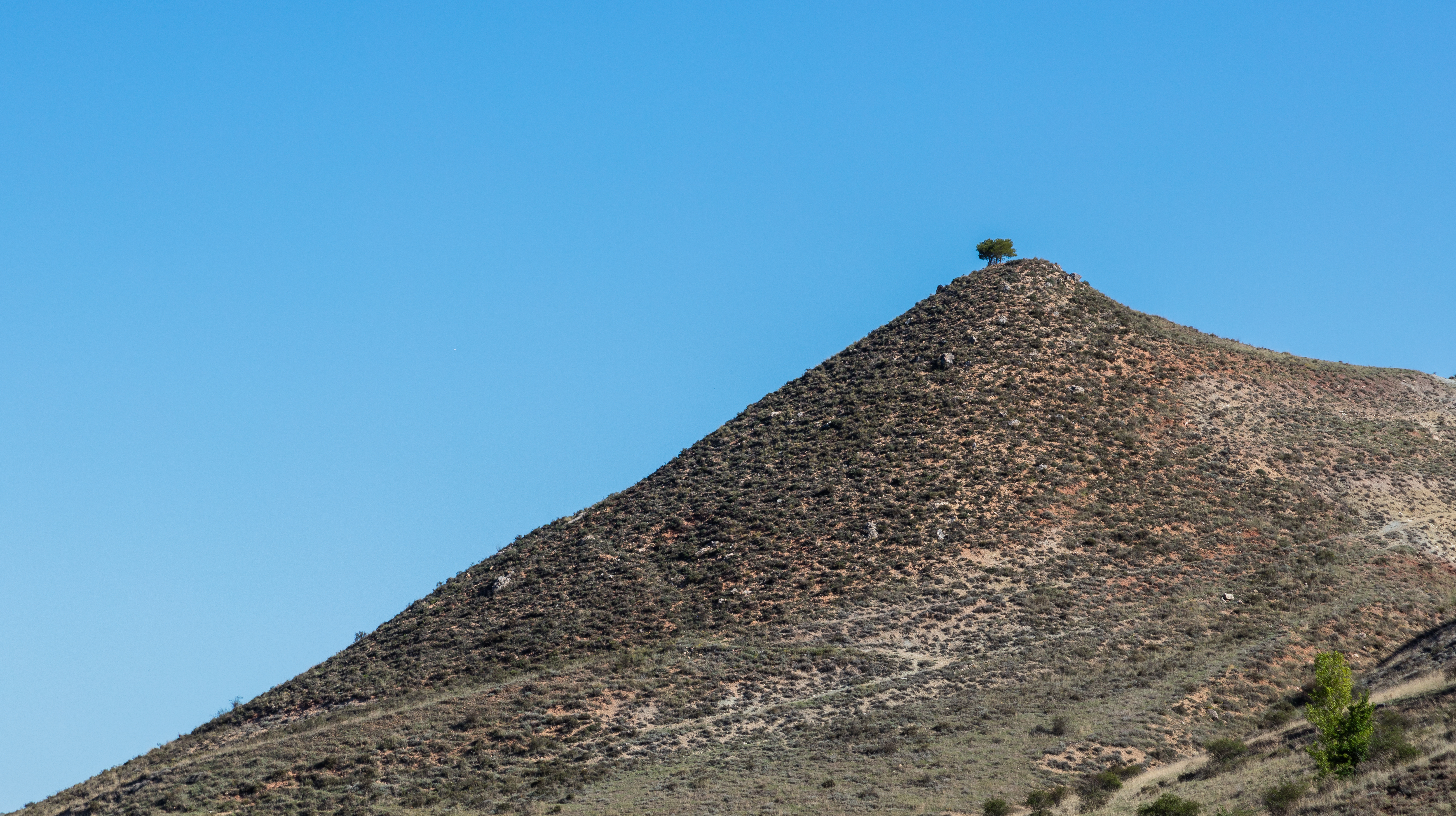 Landscape in Salinas de Medinaceli, Soria, Spain